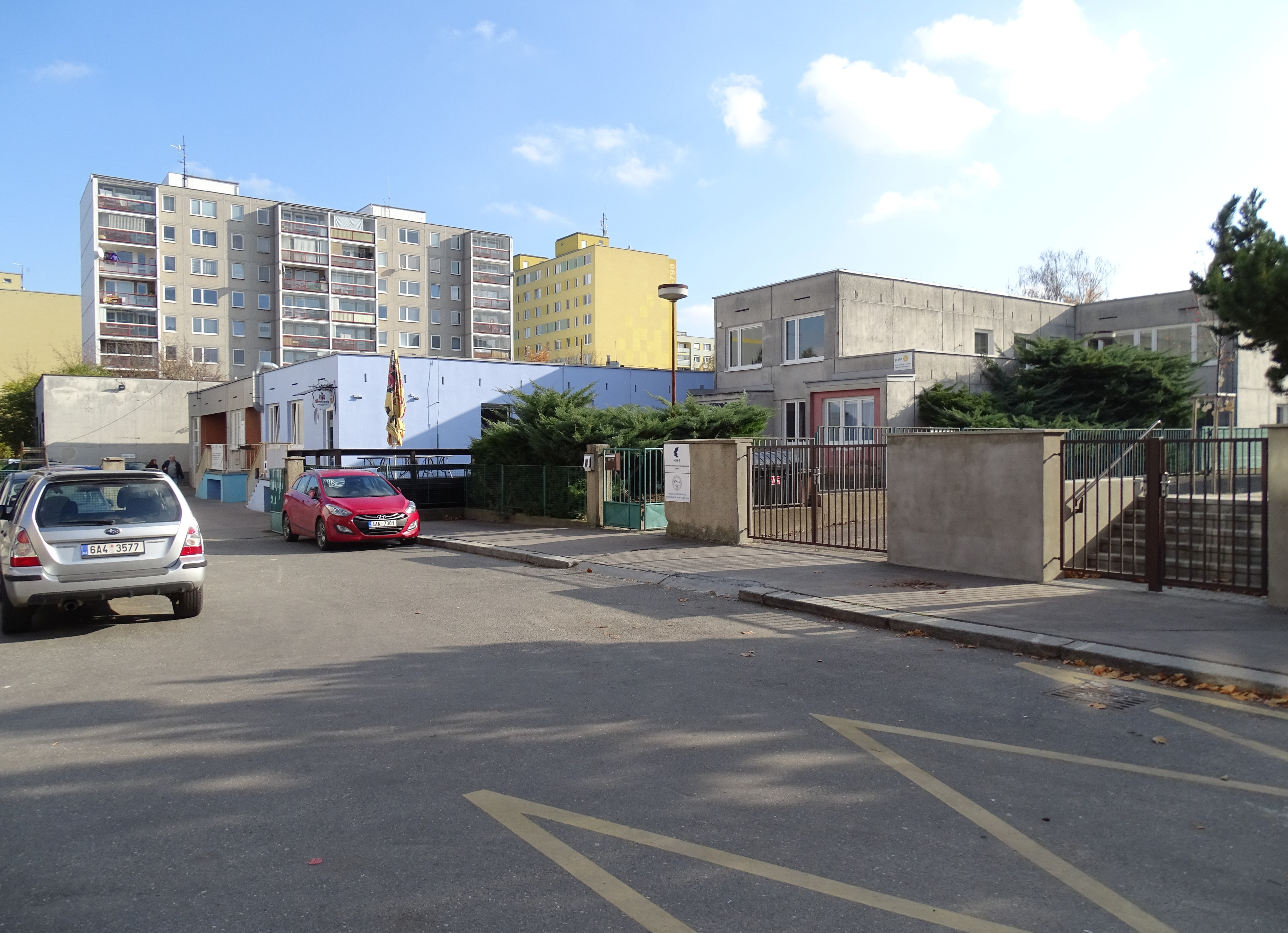 Prague-Háje, Czechia, Hekrova 805/25.